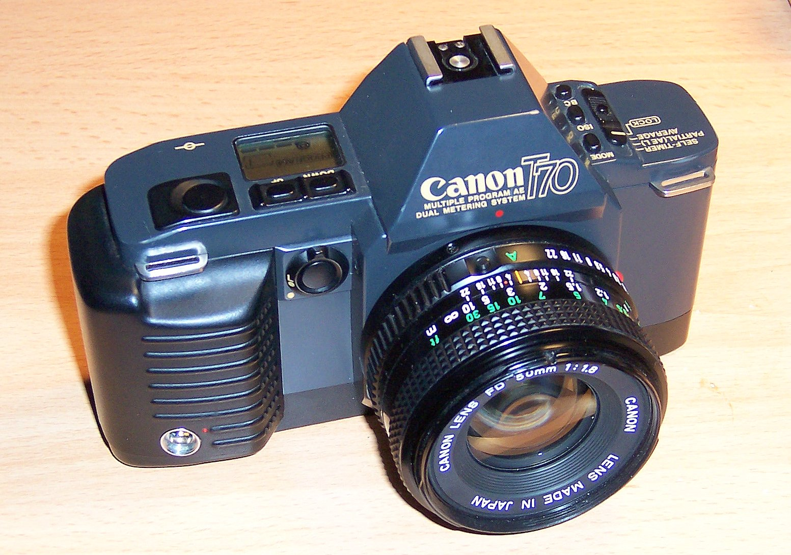 Canon T70 single-lens reflex camera. Photo by Matthew Brown (the uploader), November 2 2005.